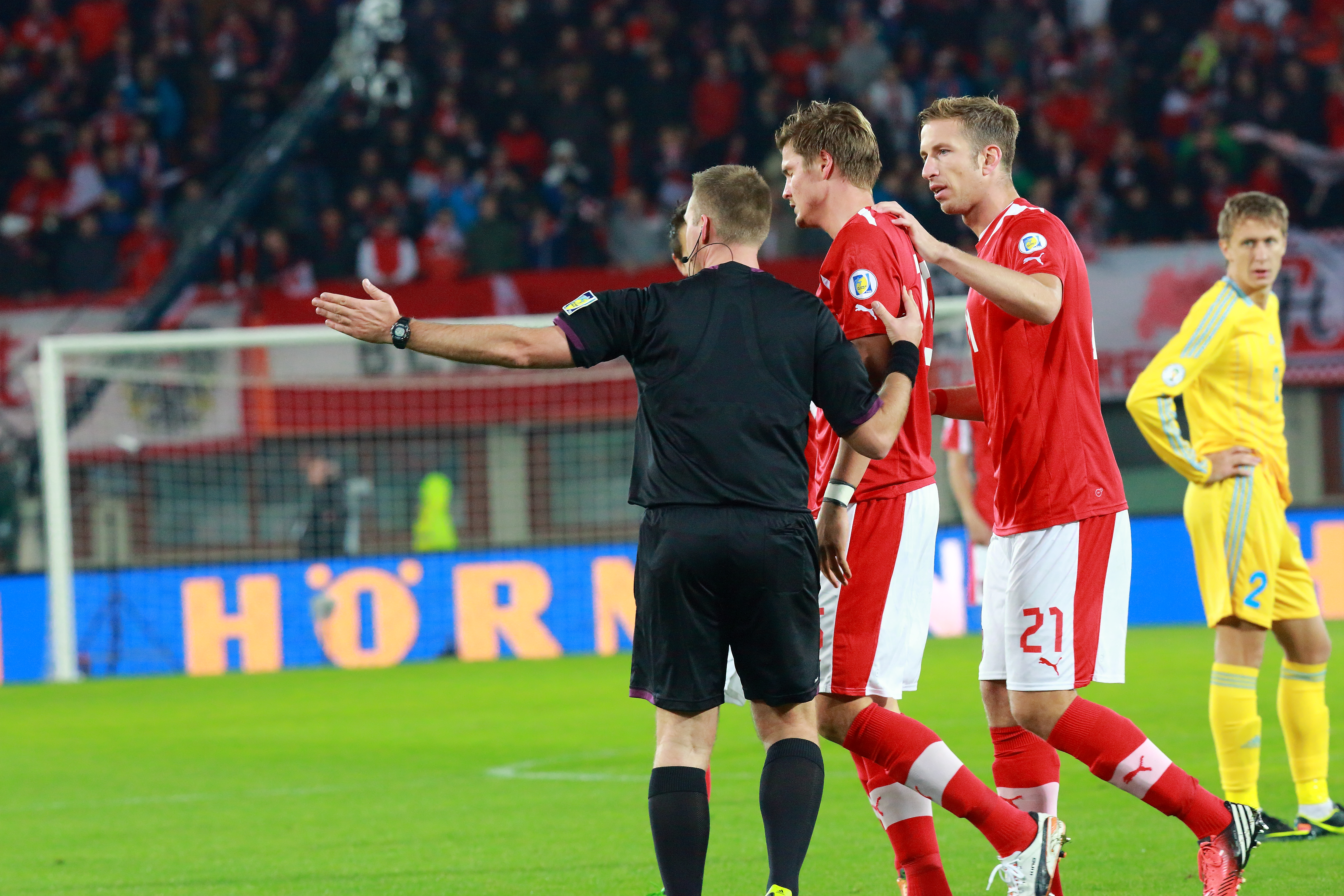 Sebastian Prödl leaving the field after injuring his nose.